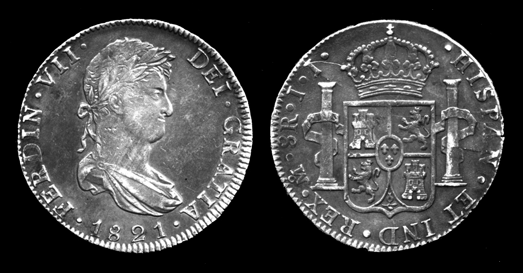 Silver Spanish Dollar of Ferdinand VII.